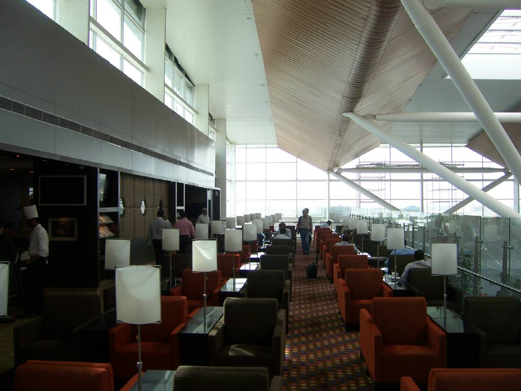 Just a few quick photographs at check-in . . . brilliant place . . . good luck to GMR on the rest of it though , , , . . . , , ,the Plaza Lounge at Delhi domestic Airport, currently also the Kingfisher lounge. Good food, photos on that next time.